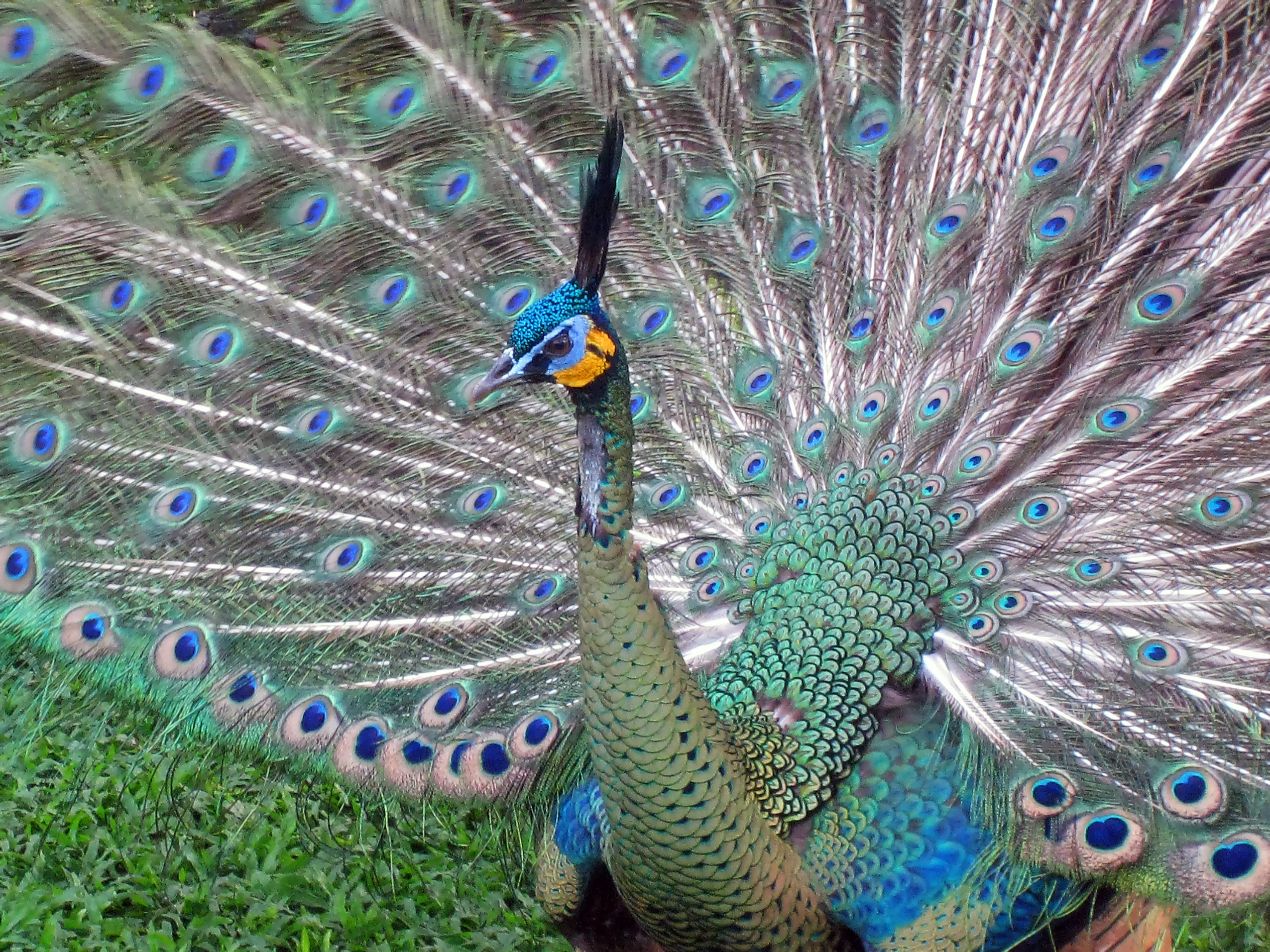 Male Javan Green Peafowl (Pavo muticus) on display in Taman Burung (Bird Park) Taman Mini Indonesia Indah, Jakarta, Indonesia.